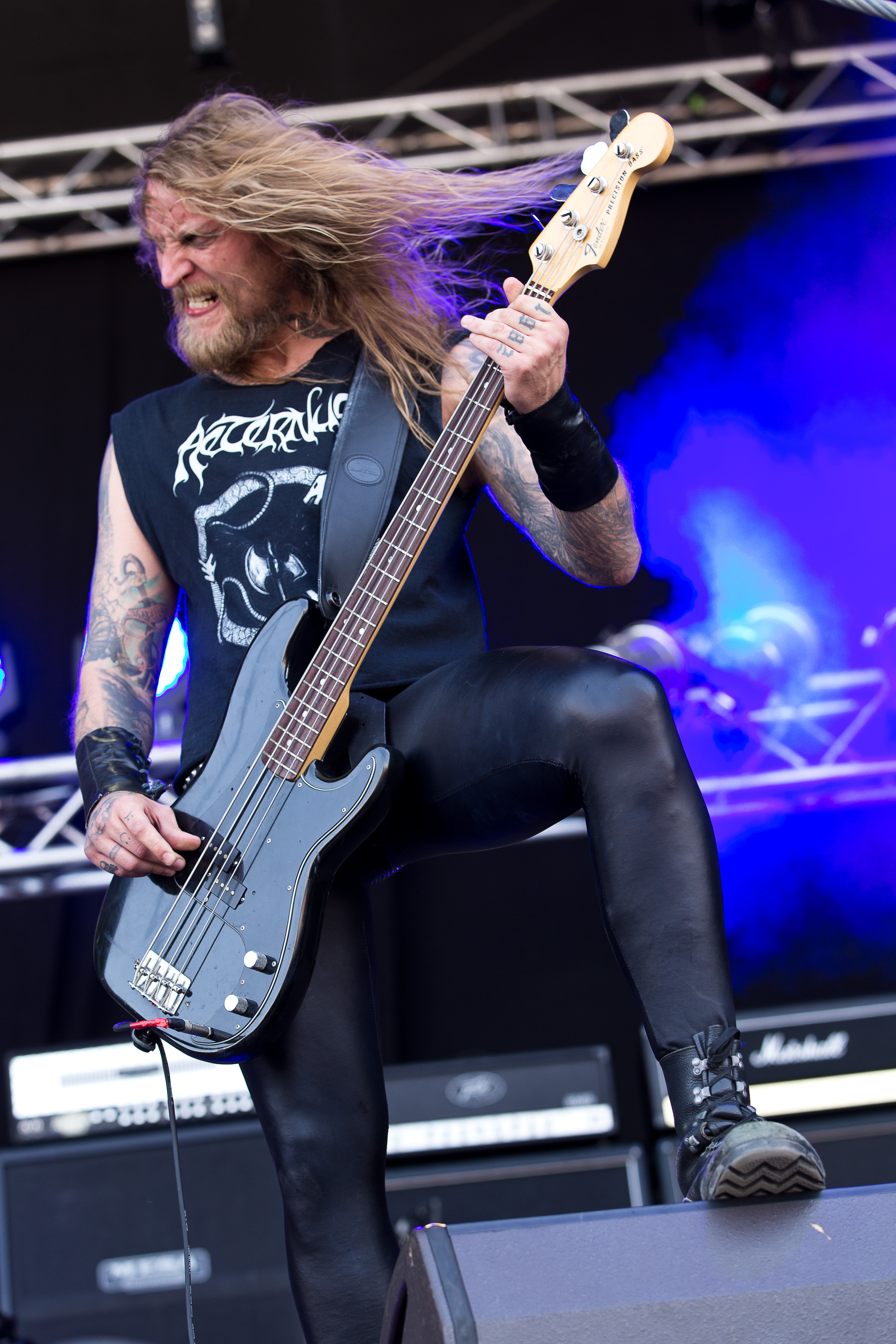 The Norwegian black metal band Aeternus at the Party.San Open Air 2015 in Obermehler-Schlotheim/Germany.